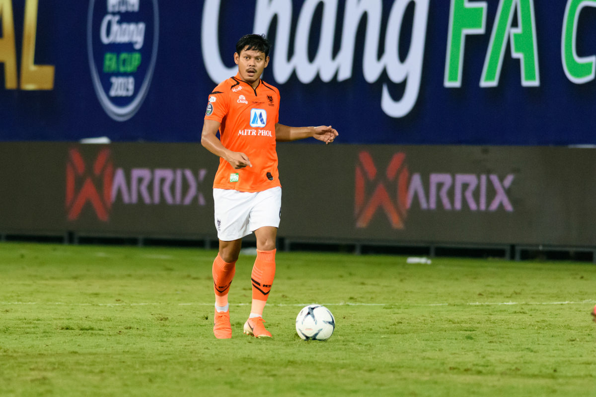 Alongkorn Prathumwong during the Thai FA Cup Final 2019 vs Port FC